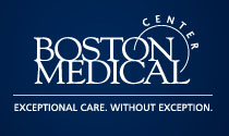 Boston Medical Center (BMC) is a 496-bed academic medical center located in Boston’s historic South End.